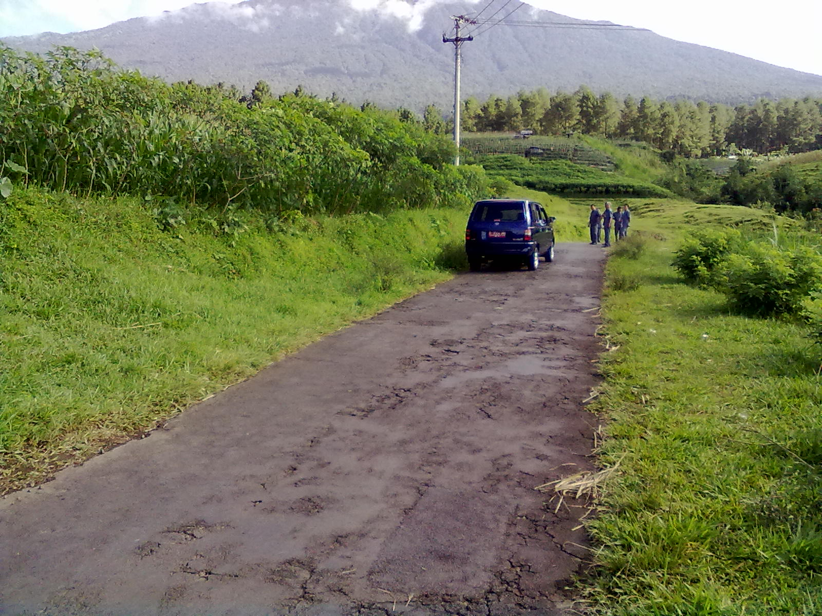 Magnetic Hill, Limpakuwus, Banyumas, Indonesia